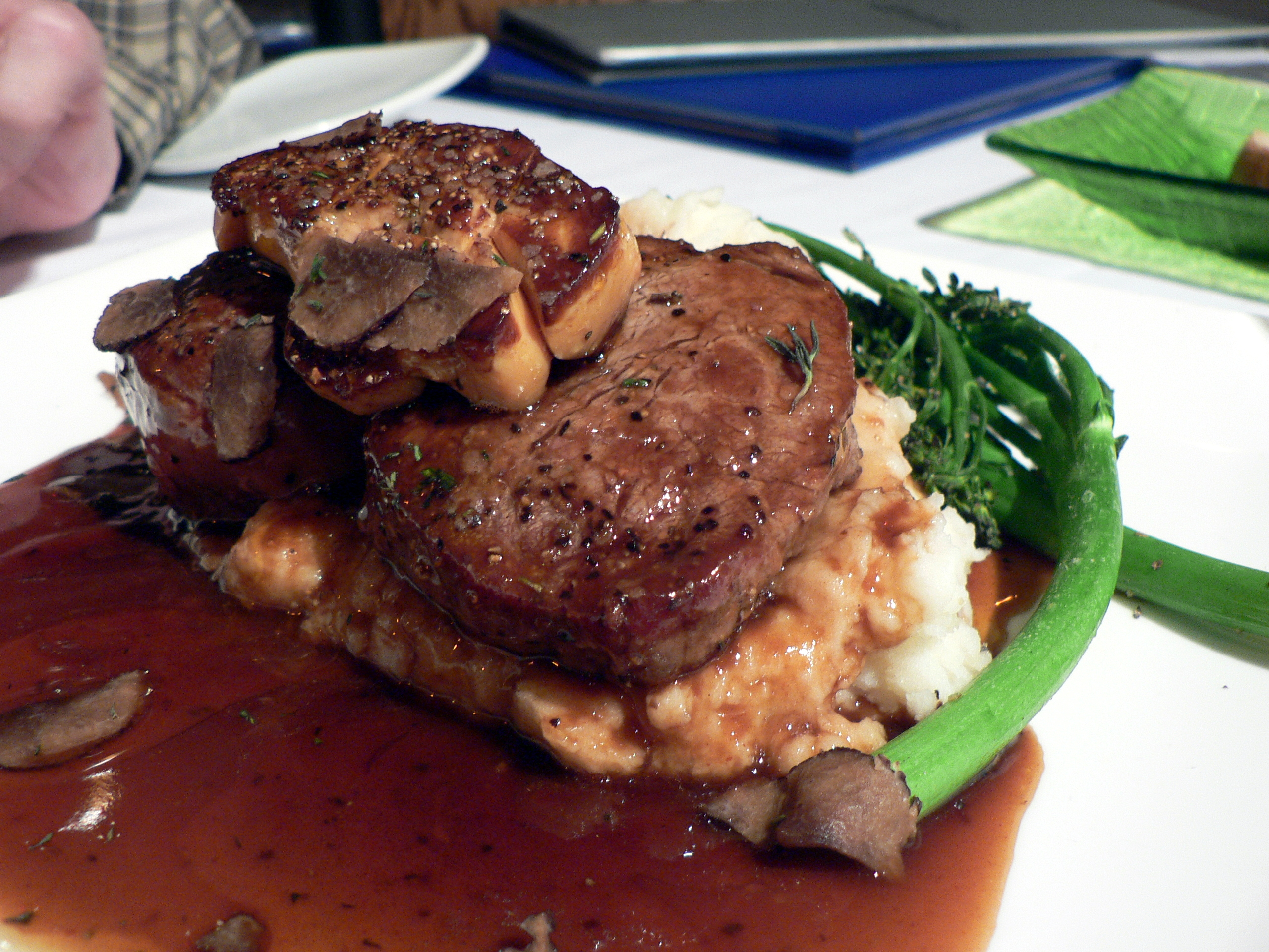 Tenderloin In the past I've chided a friend for preferring. He says he likes it because it's tender but I say that I don't mind chewing my food. This was tender and flavorful. The foie gras was perfectly prepared. I normally don't finish mashed potatoes because they're hardly ever worth eating at all. These were great